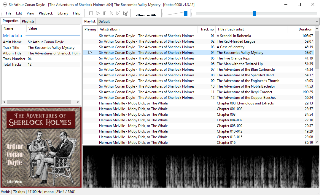 A screenshot of foobar2000 (version 1.3.12), a freeware audio player running on Windows 10. Depicted is the "visualization + album art + tabs" view, with public domain LibriVox audio books added to the playlist.